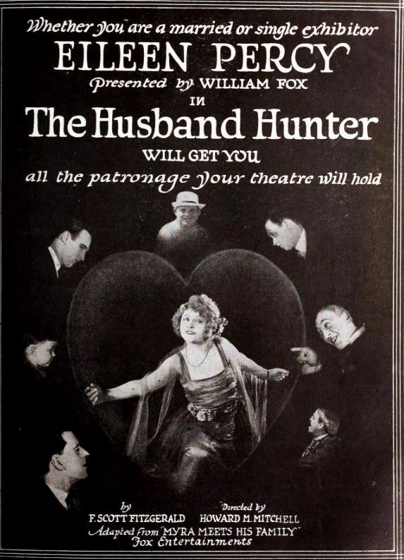 Advertisement for the American comedy drama film The Husband Hunter (1920) with Eileen Percy, the actors are not identified, on page 157 of the October 9, 1920 Exhibitors Herald.